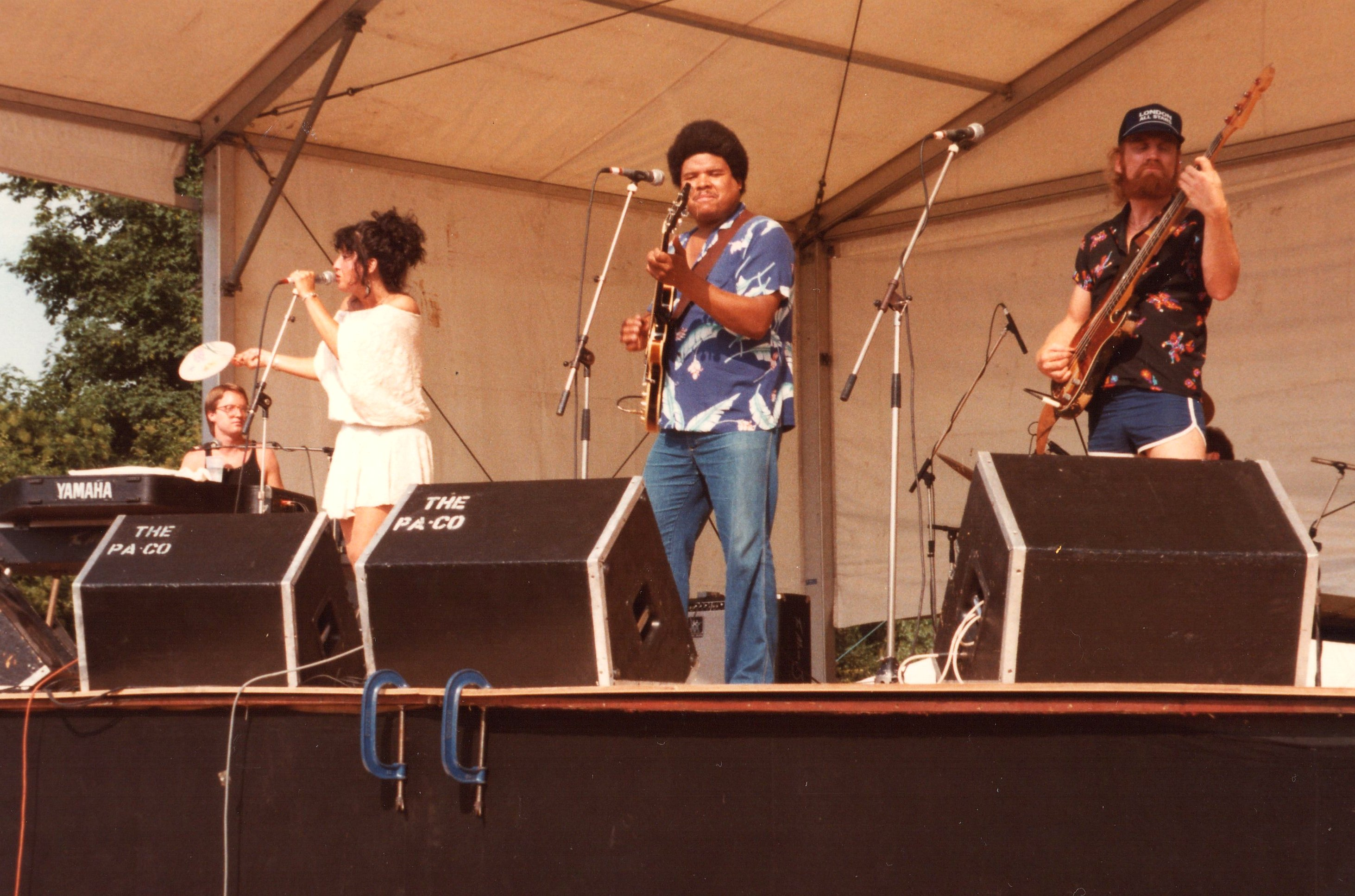 Maria Muldaur (U.S. Folk/pop/jazz artist) on stage with her band at the 1983 Cambridge Folk Festival (Tony Rees photograph)